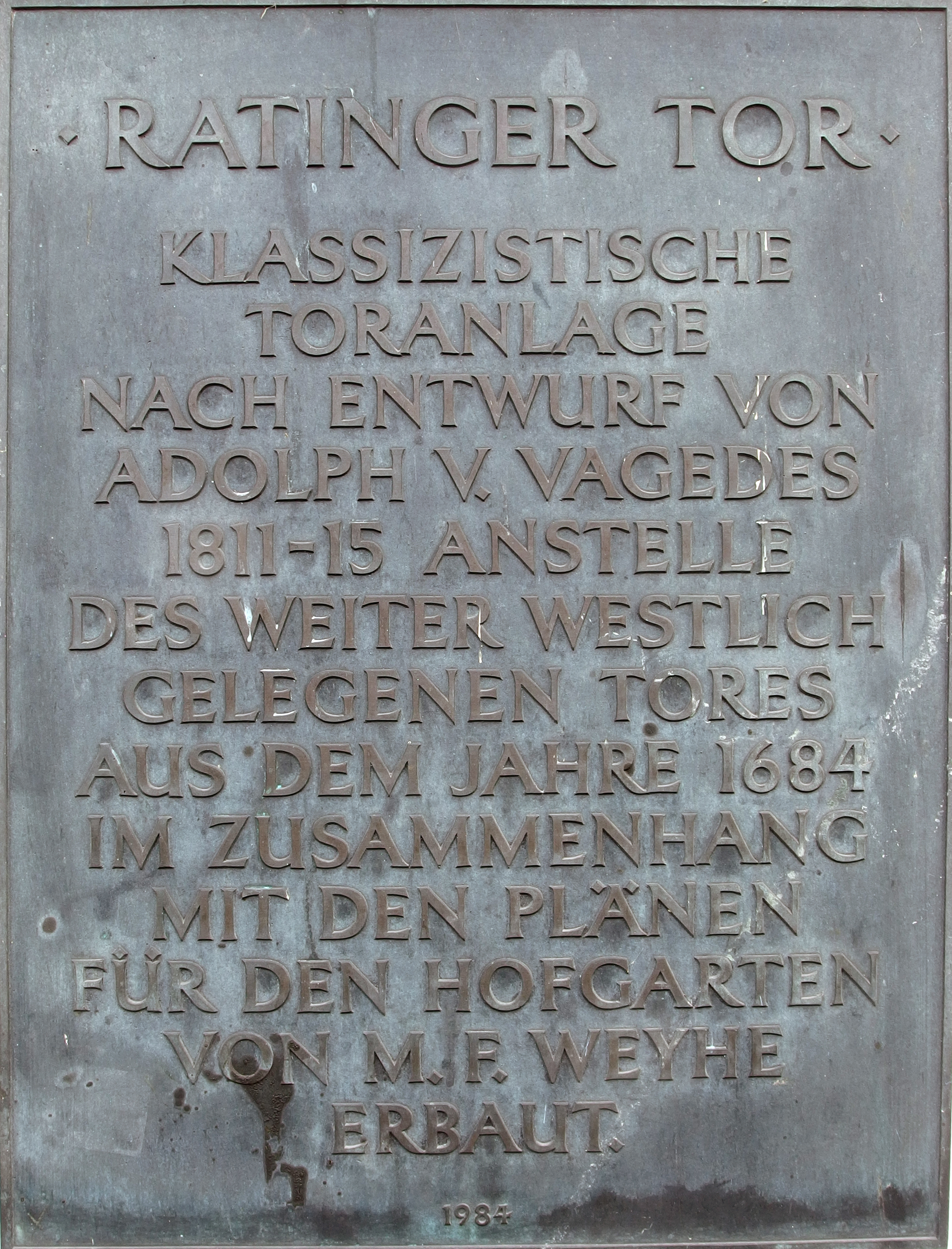 Ratinger Tor, Adolph von Vagedes, Düsseldorf